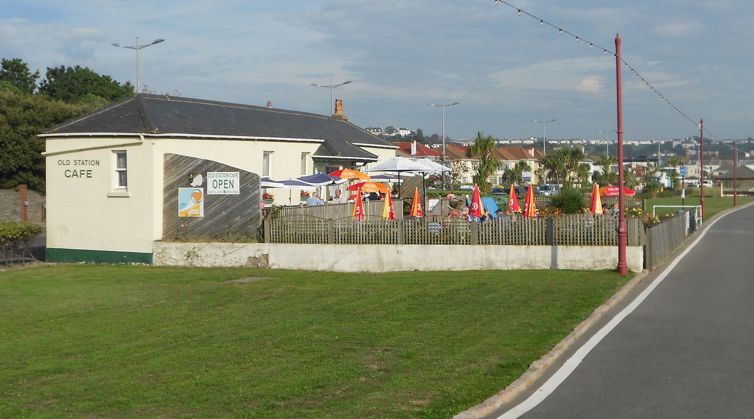 The Old Station Cafe at Millbrook, Jersey.